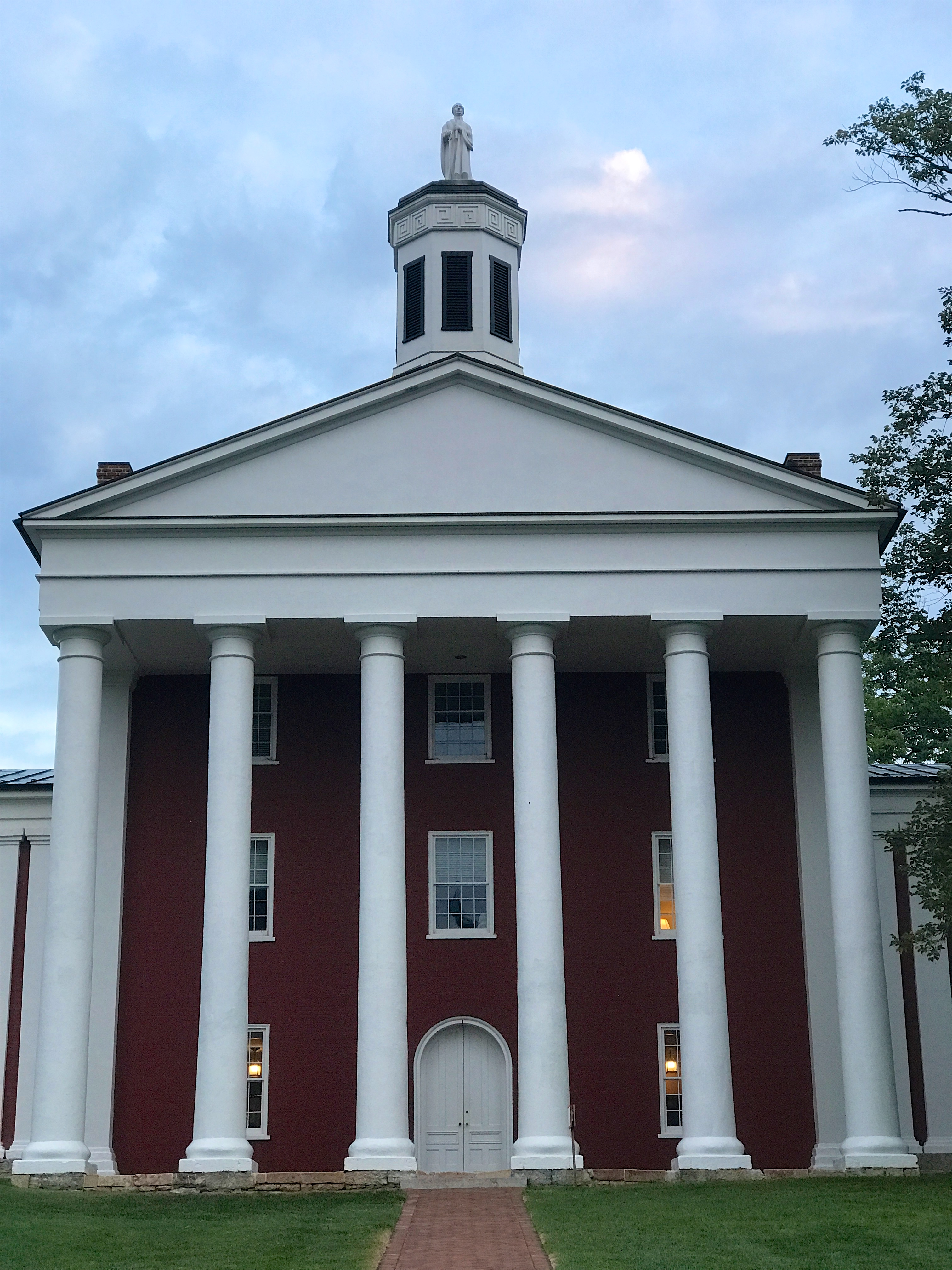 Washington Hall, named in honor of George Washington, at Washington and Lee University in Lexington, Virginia. Note the statue of George Washington, Old George, atop the Colonnade.